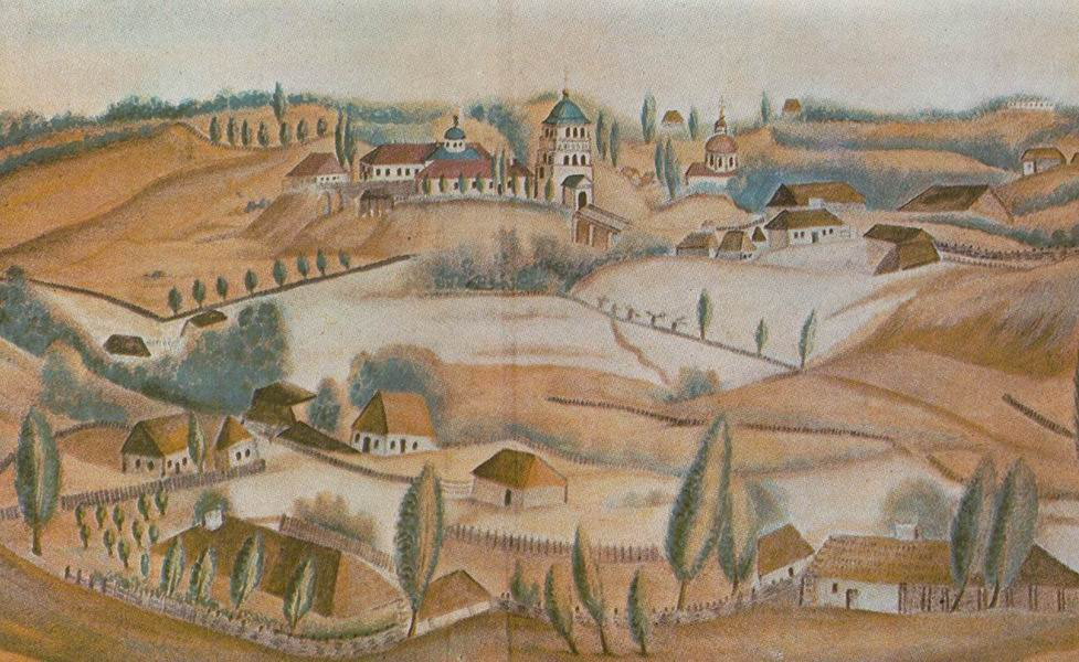 Drawing of the Derman Monastery (established 15th century - 20th century when closed down Soviet Authorities)